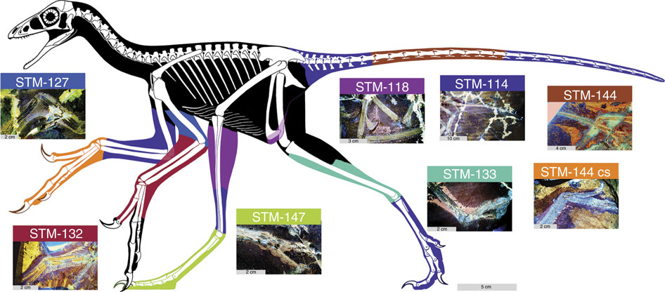 Skeletal restoration of Anchiornis huxleyi by Scott Hartman (2017), incorporating the soft tissue outlines revealed by laser fluorescence studies.